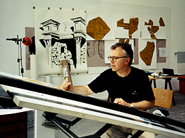 Tom Lollar at the American Academy in Rome